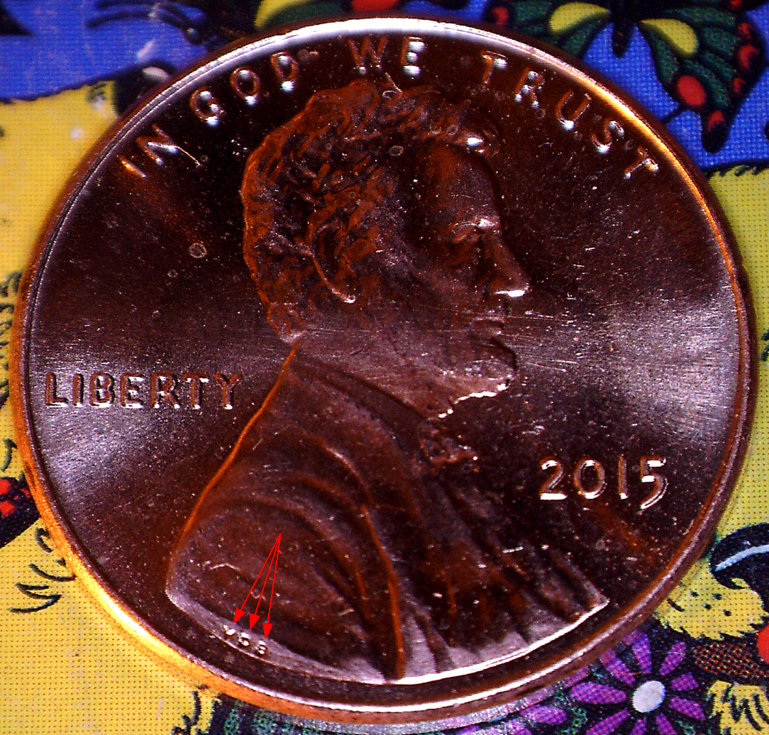 This file shows a Lincoln Shield cent with red arrows showing the location where Victor David Brenner's initials are incused onto the coin.